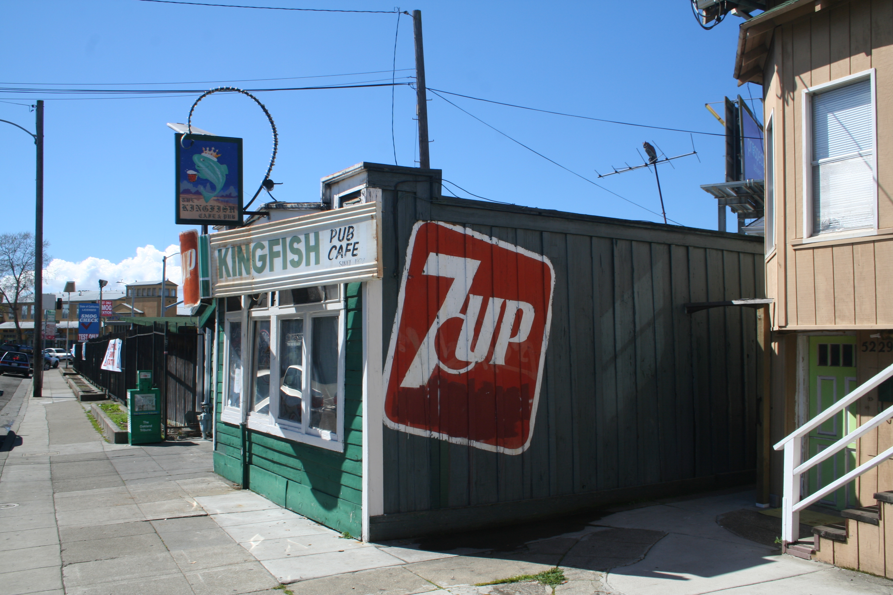 Photographed by and copyright of (c) David Corby (User:Miskatonic, uploader) 2006